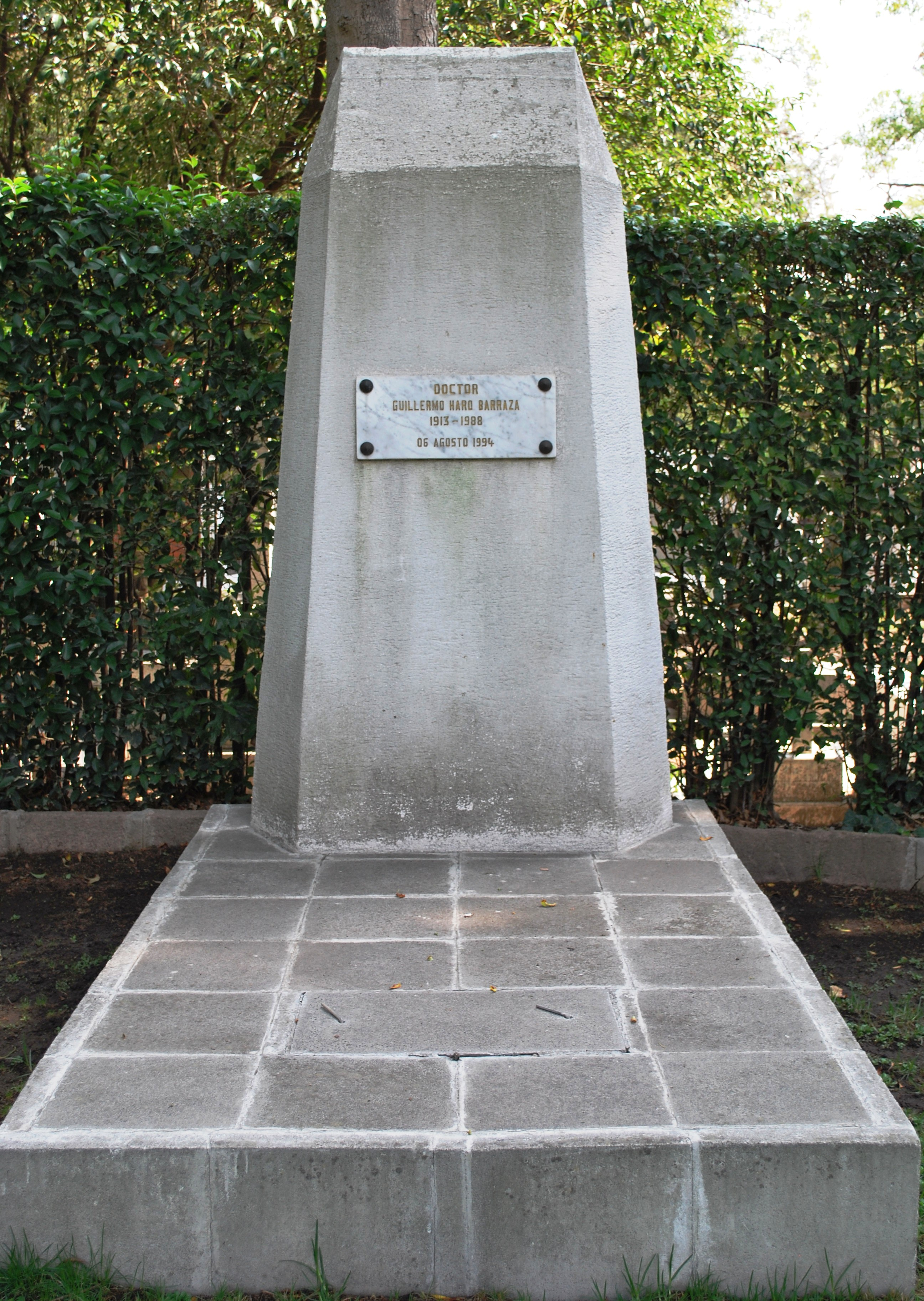 Tomb of Guillermo Haro Barranza in the Panteon Civil de Dolores cemetery in Mexico City